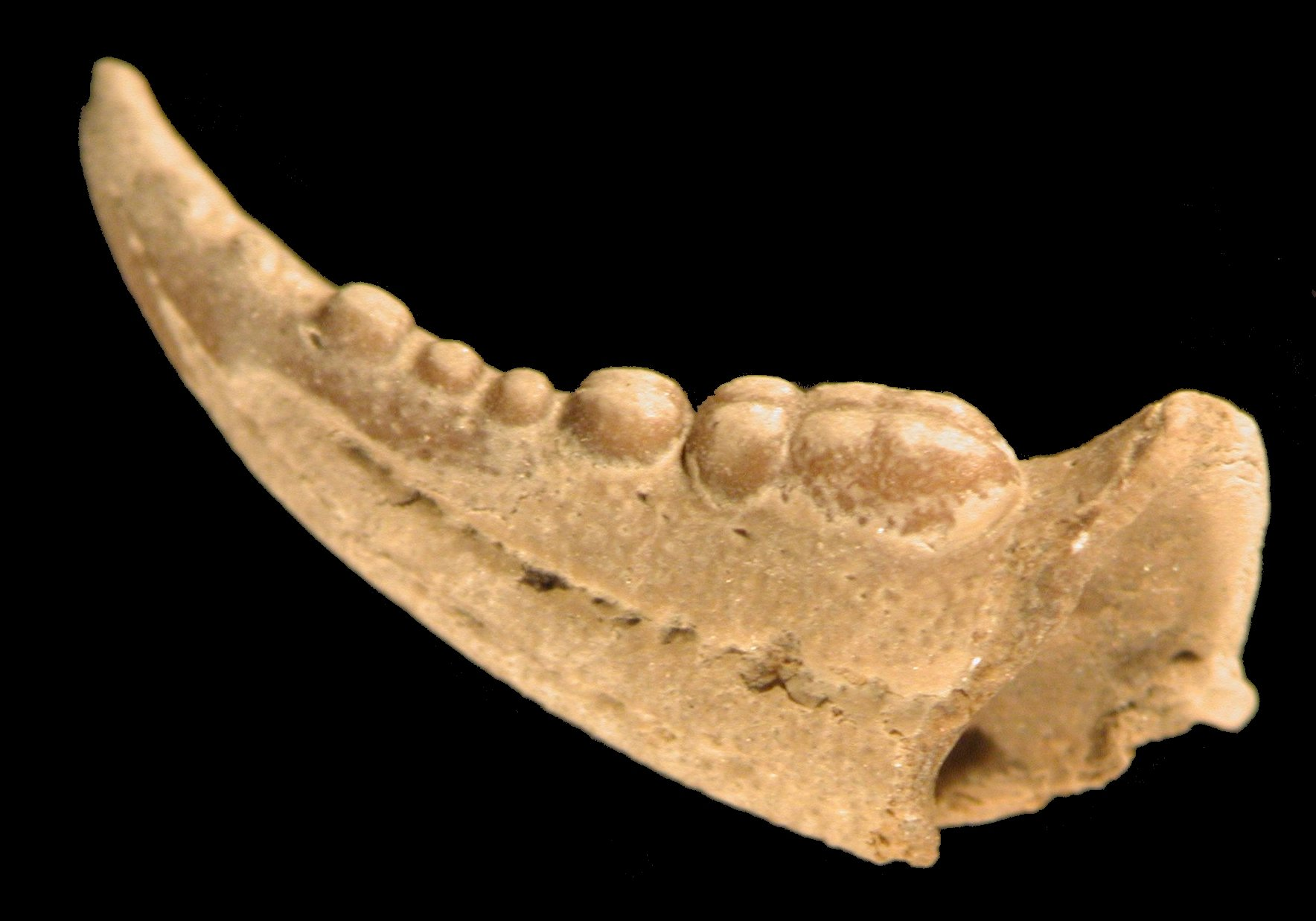 Fossil crab remains - Eemian age - Netherlands